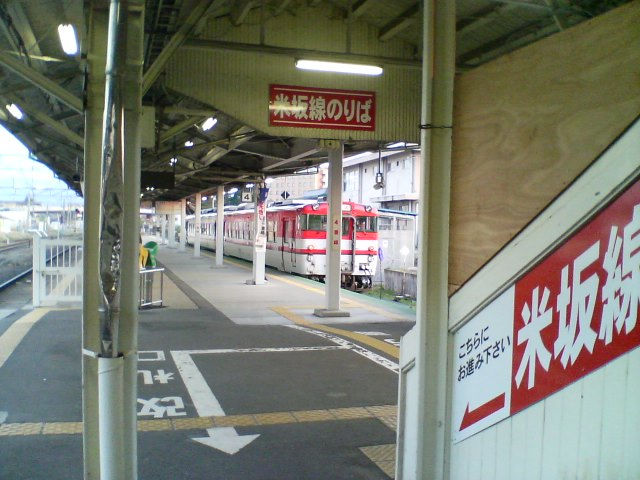 Platform #4 of JR Yonezawa station (米沢駅, Yamagata pref., Japan)